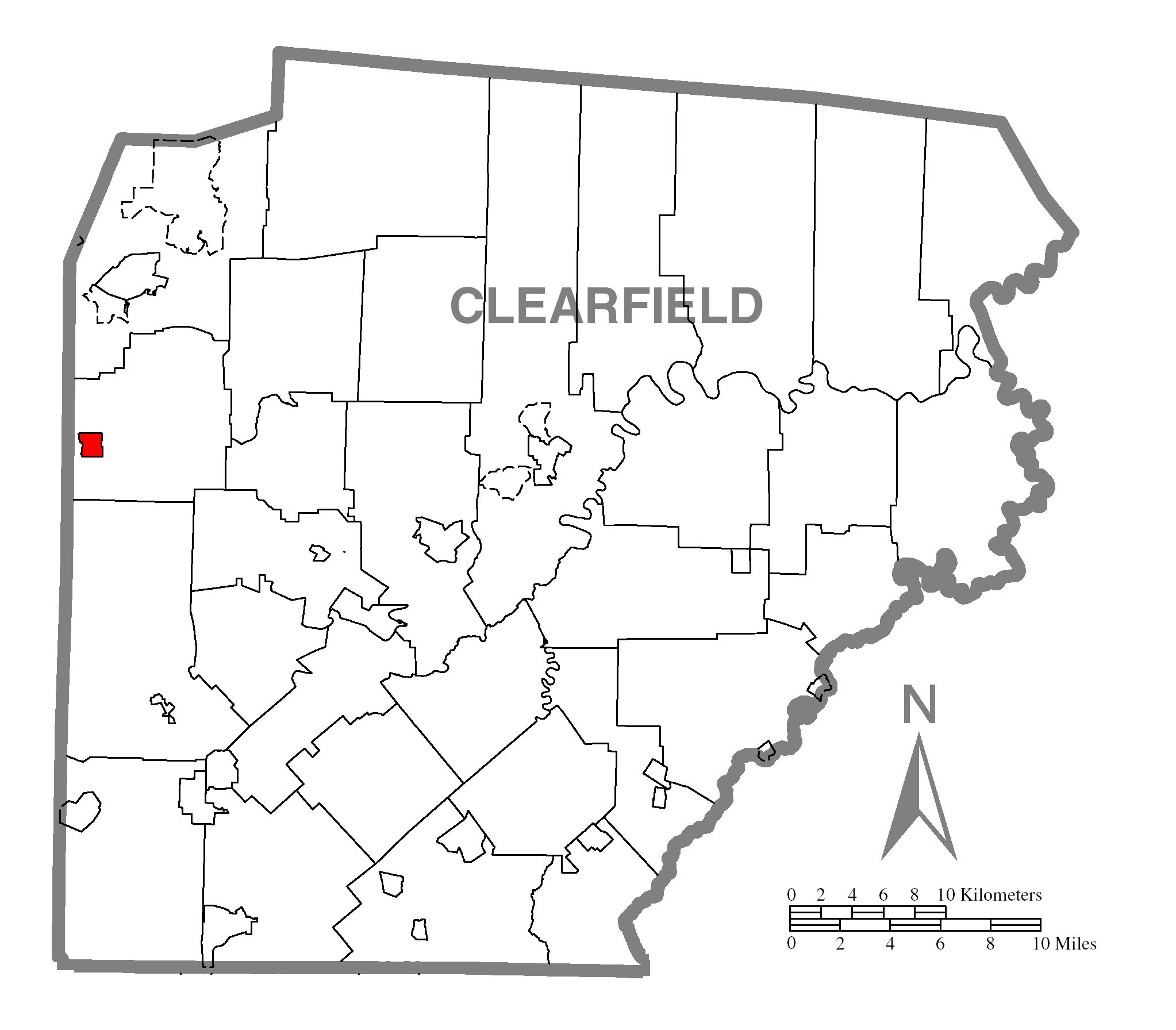 A map of Clearfield County showing Troutville, Pennsylvania (alternate) highlighted on the map.